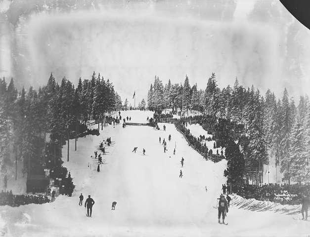 Holmenkollbakken ski jump in Oslo, Norway